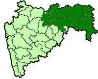 Districts of the Vidarbha region of Maharashtra. Based on the district maps series created by Nichalp and released by him into the public domain. QuartierLatin1968 21:35, 23 October 2005 (UTC)